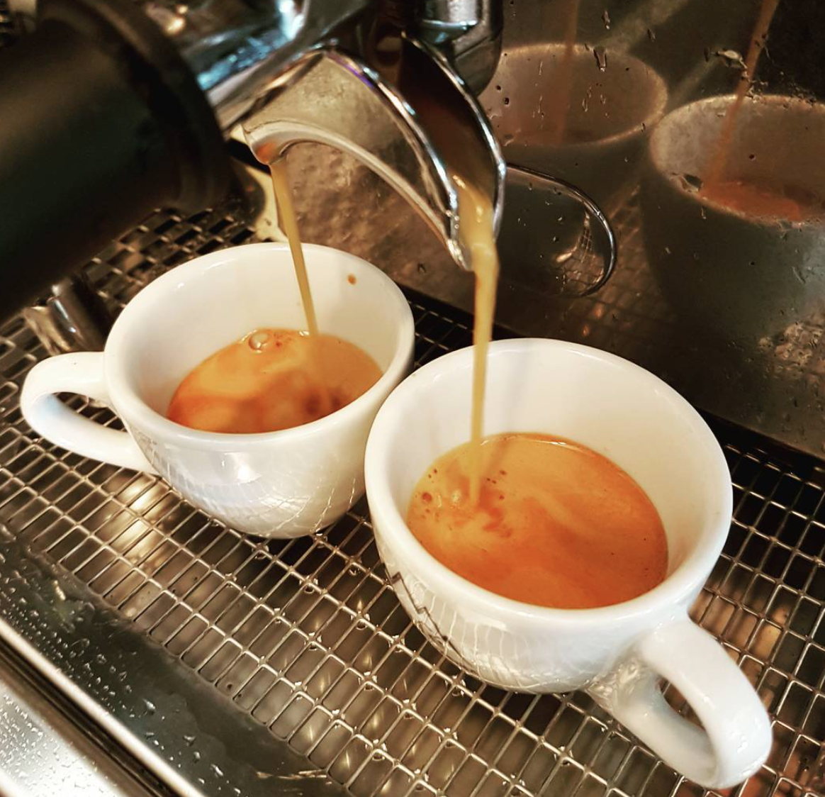 Two shots of espresso being pulled